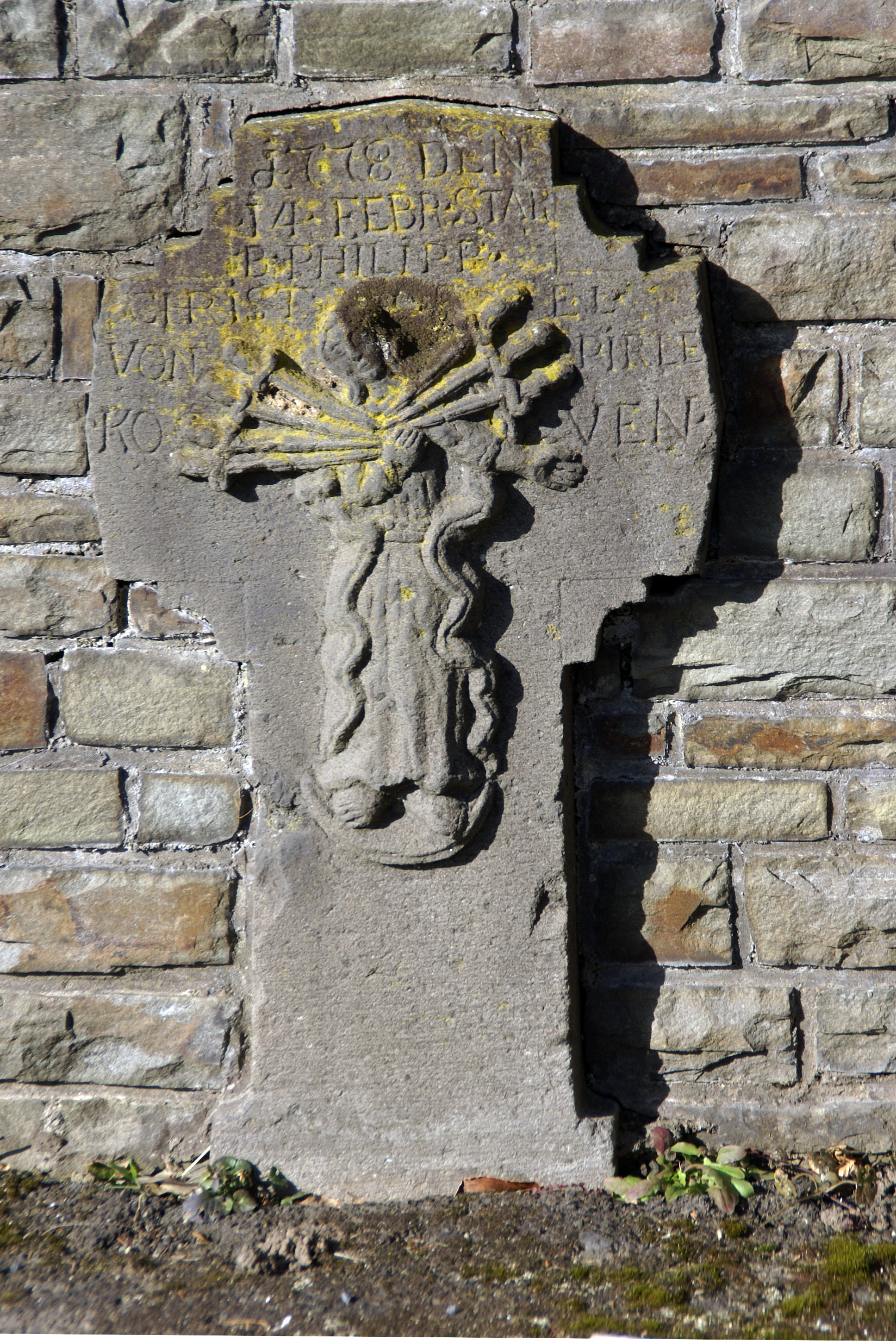 Wayside cross in Freckwinkel, Siegburger Straße 316